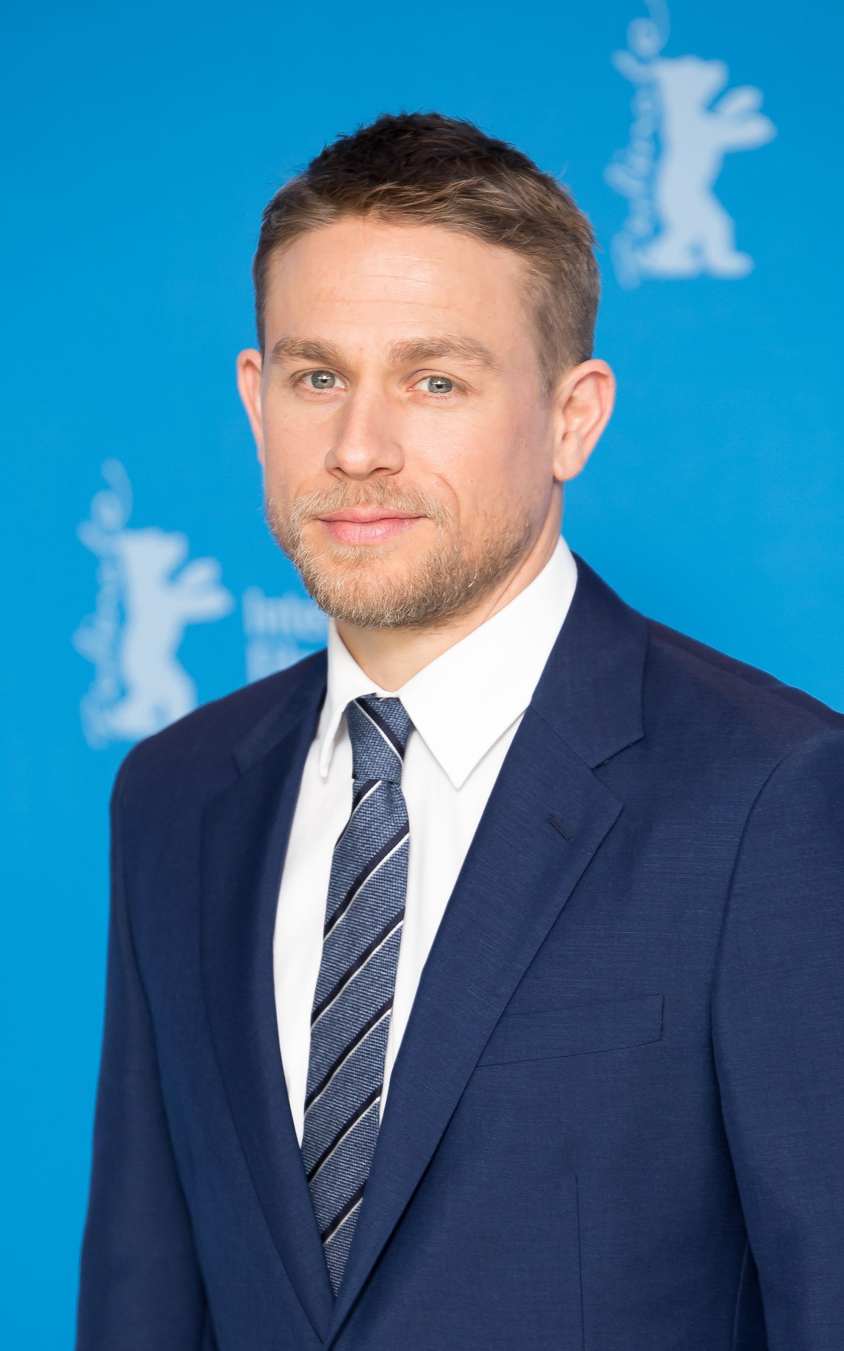 Actor Charlie Hunnam at the presentation of The Lost City of Z at the Berlinale 2017